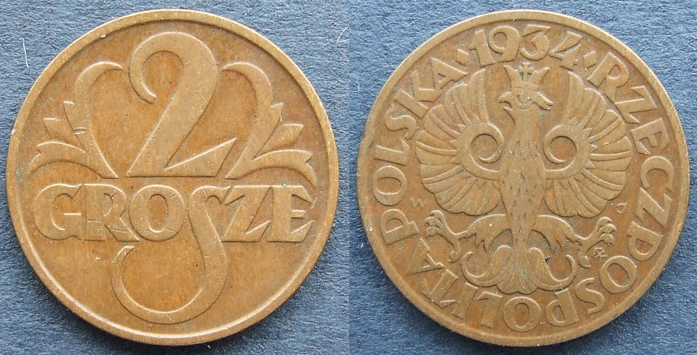 Poland 2 Groszy 1934